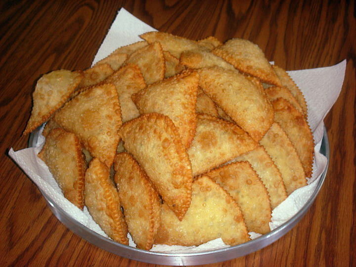 Traditional Circassians/Adyghe dishes/snacks ( Haleva)